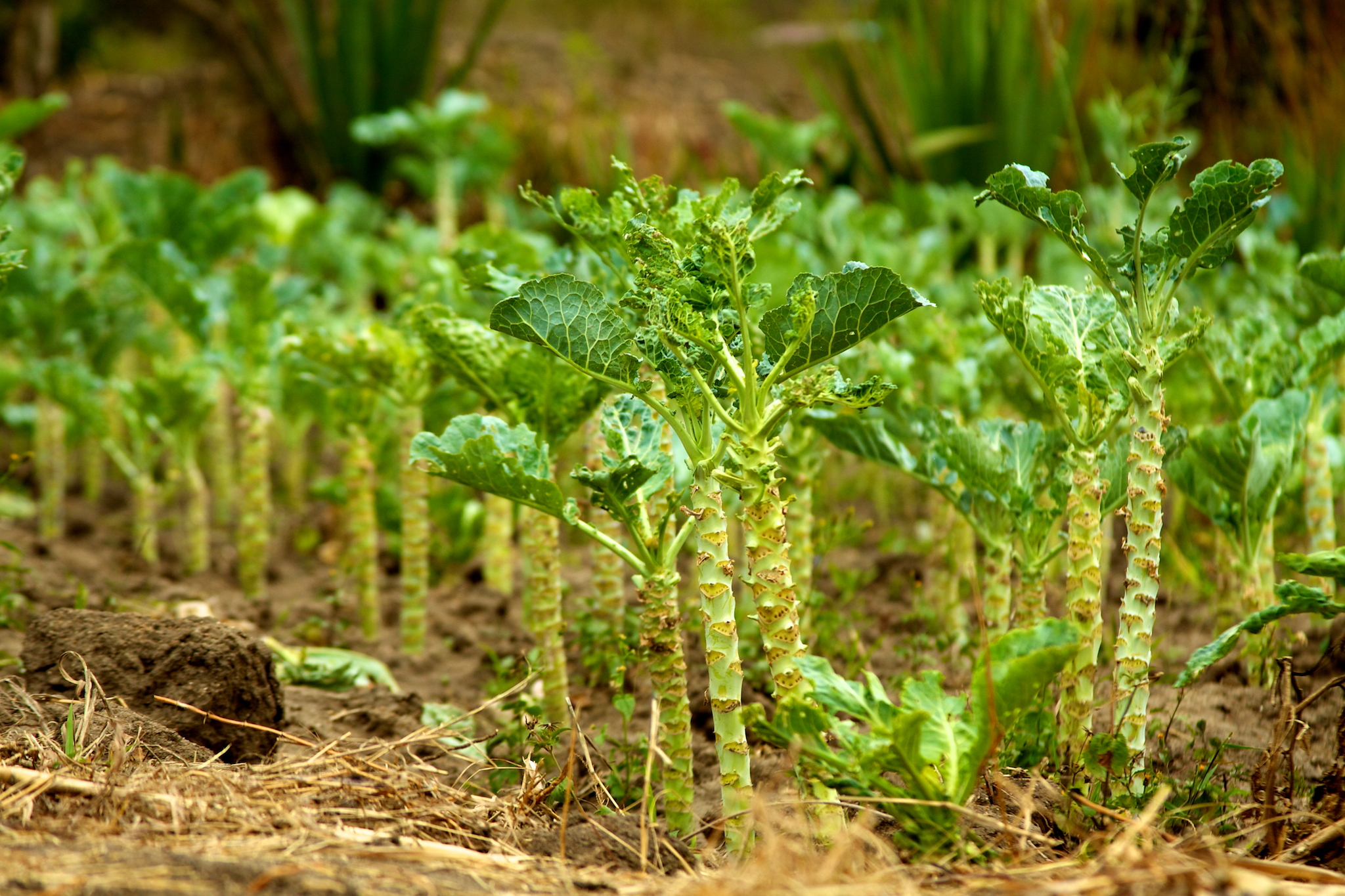 Kale growing on a small farm plot in Kenya.